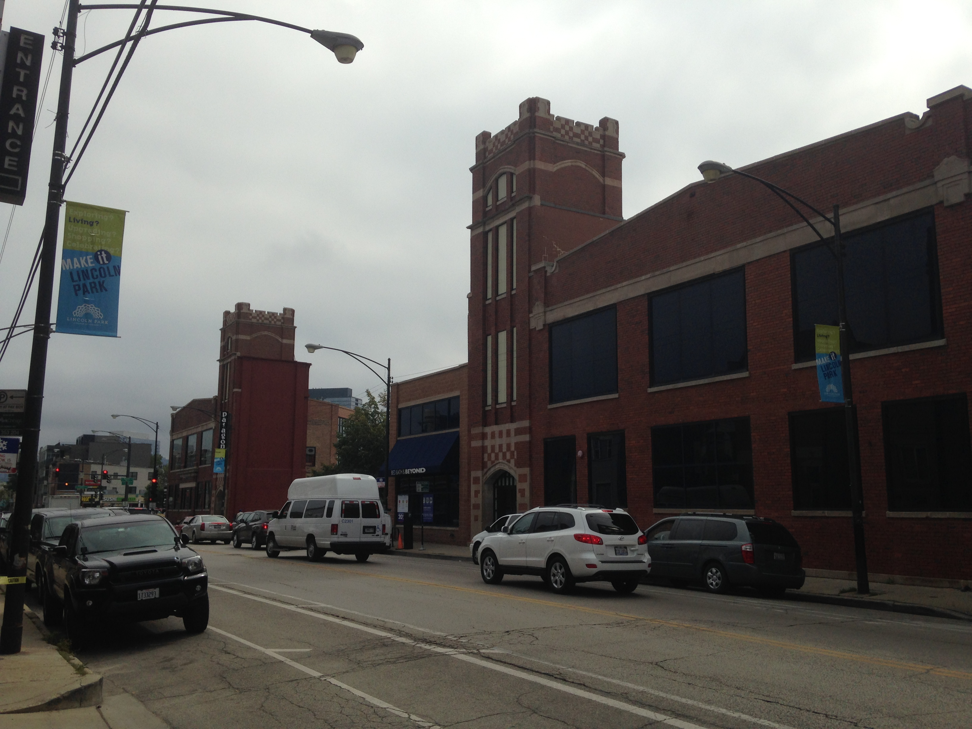 1800 N. Clybourn Ave. in Chicago, in 2016. View facing south-southeast, on an overcast fall day.